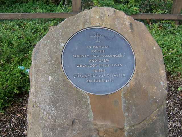 Memorial to the Stockport air crash. June 1967. A British Midland Airways Argonaut on a flight from Majorca, crashed at Hopes Carr in the middle of Stockport on 4th June 1967. 72 people on the aircraft died.